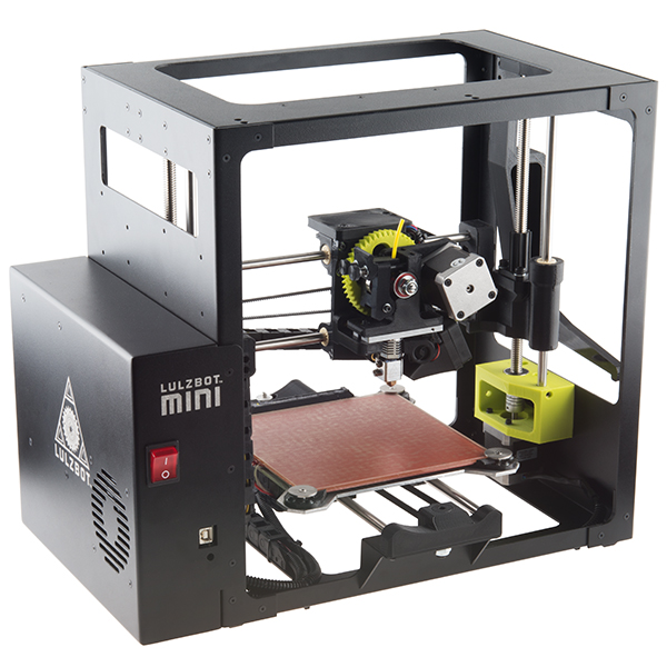 it's a 3d printer. specifically, a lulzbot mini.